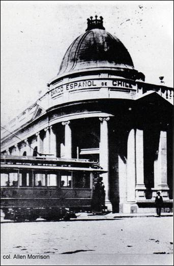 Talca before 1928 earthquake. 1 Sur corner 4 Oriente street, financial district of Talca